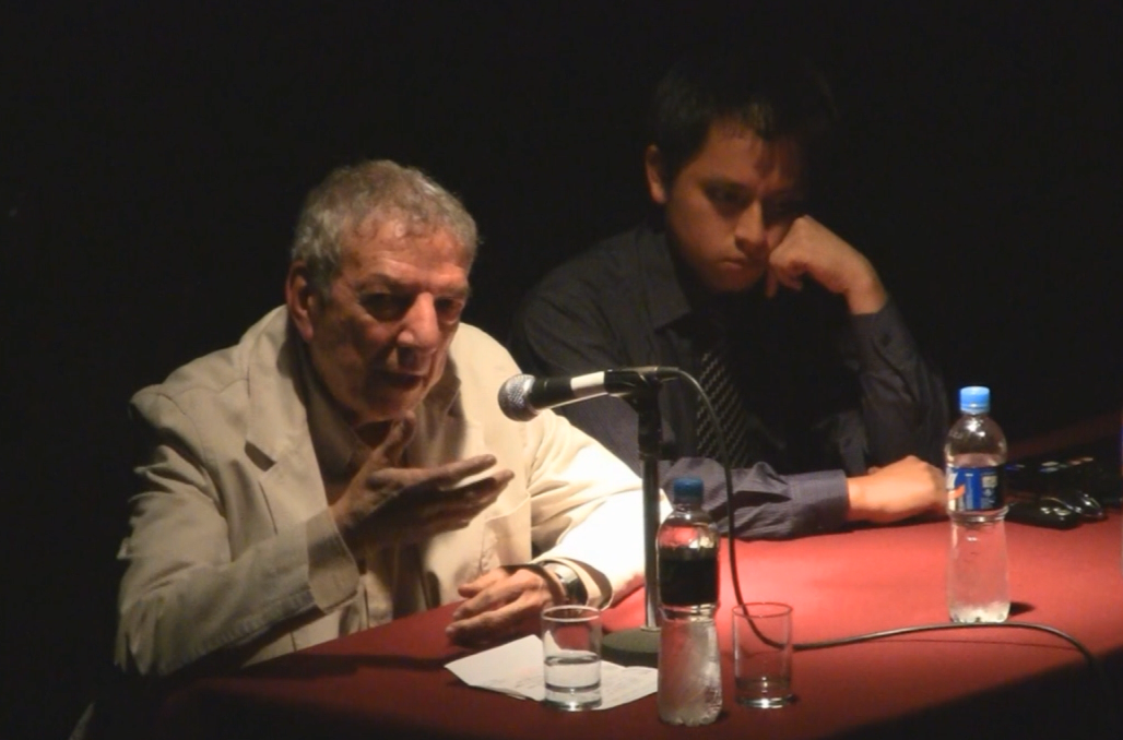 Architect Henri Ciriani addressing architecture students in Lima, Peru.